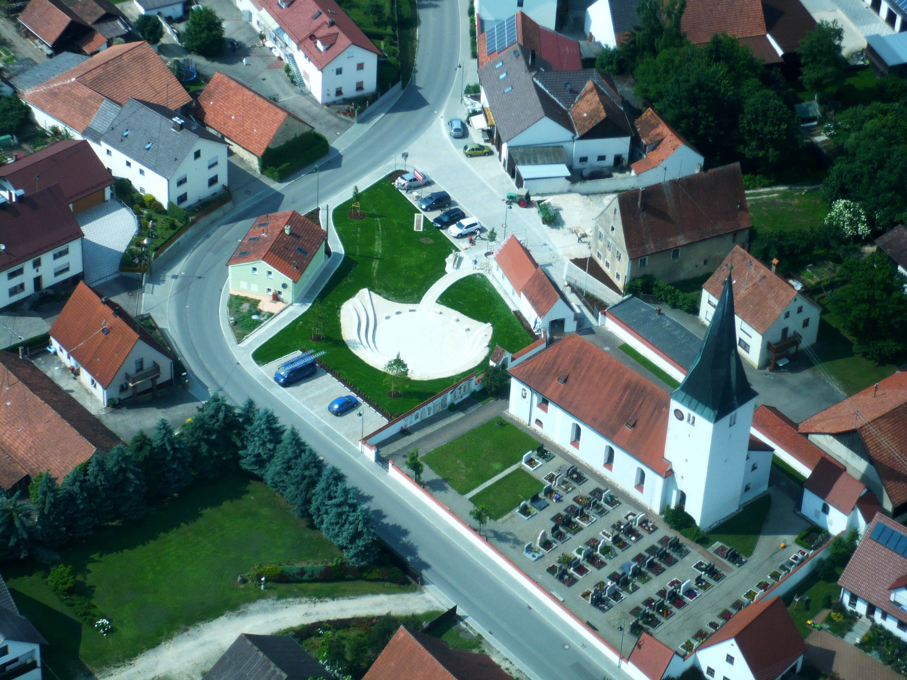 Aerial view of Gansheim. In the center the new village square, right of it St. Nikolaus church.